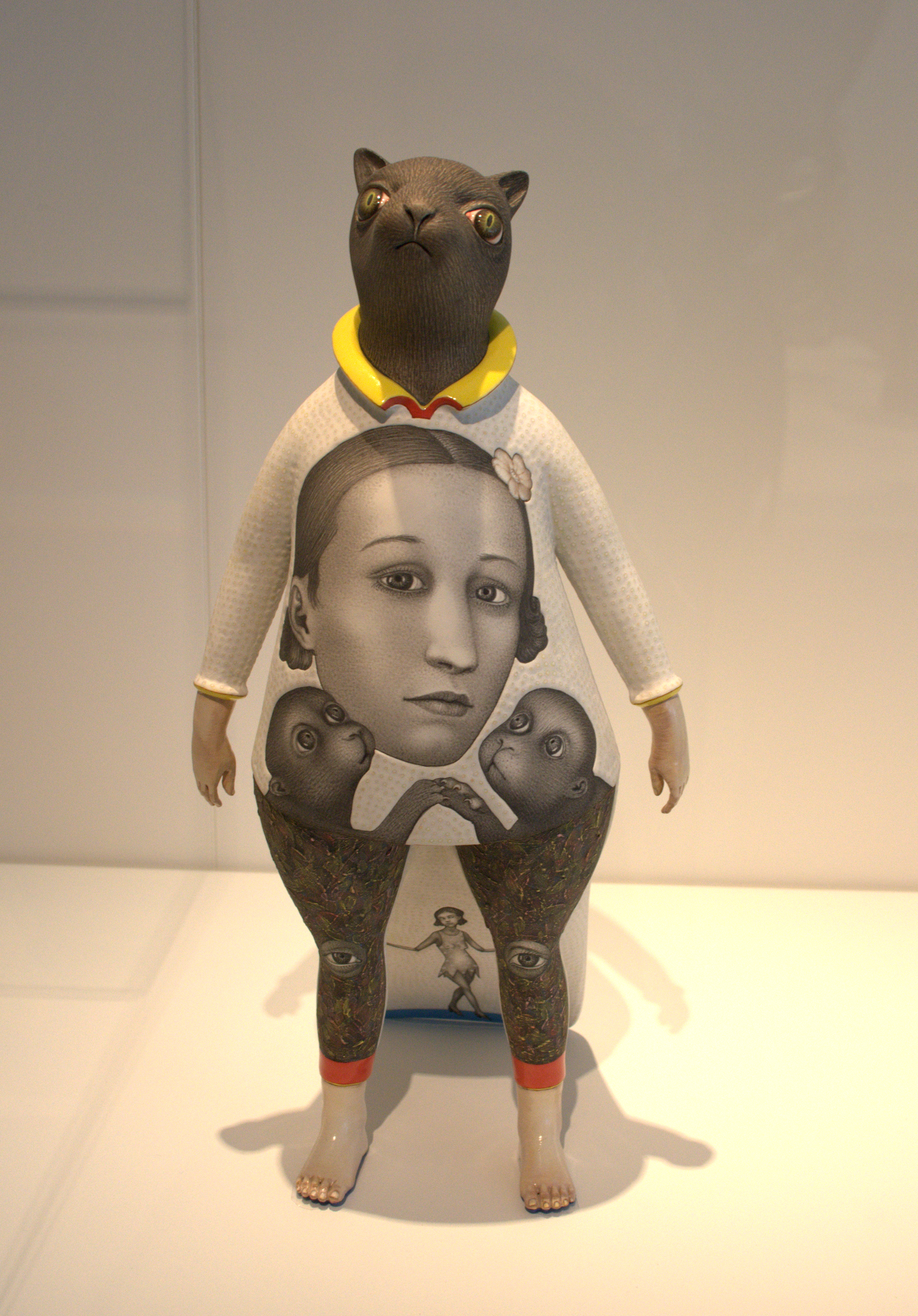 Lady Cat (2012) by Sergei Isupov. Porcelain with slip and gaze. Location: Gardiner Museum, Toronto/